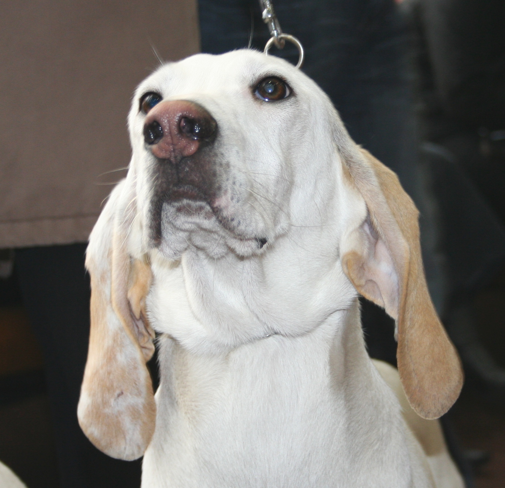 Porcelaine during the international dog show in Katowice, Poland. The dog comes from the Czech kennel "Od Pstruží říčky" FCI. The owner and the breeder is Jana Šmídová. (